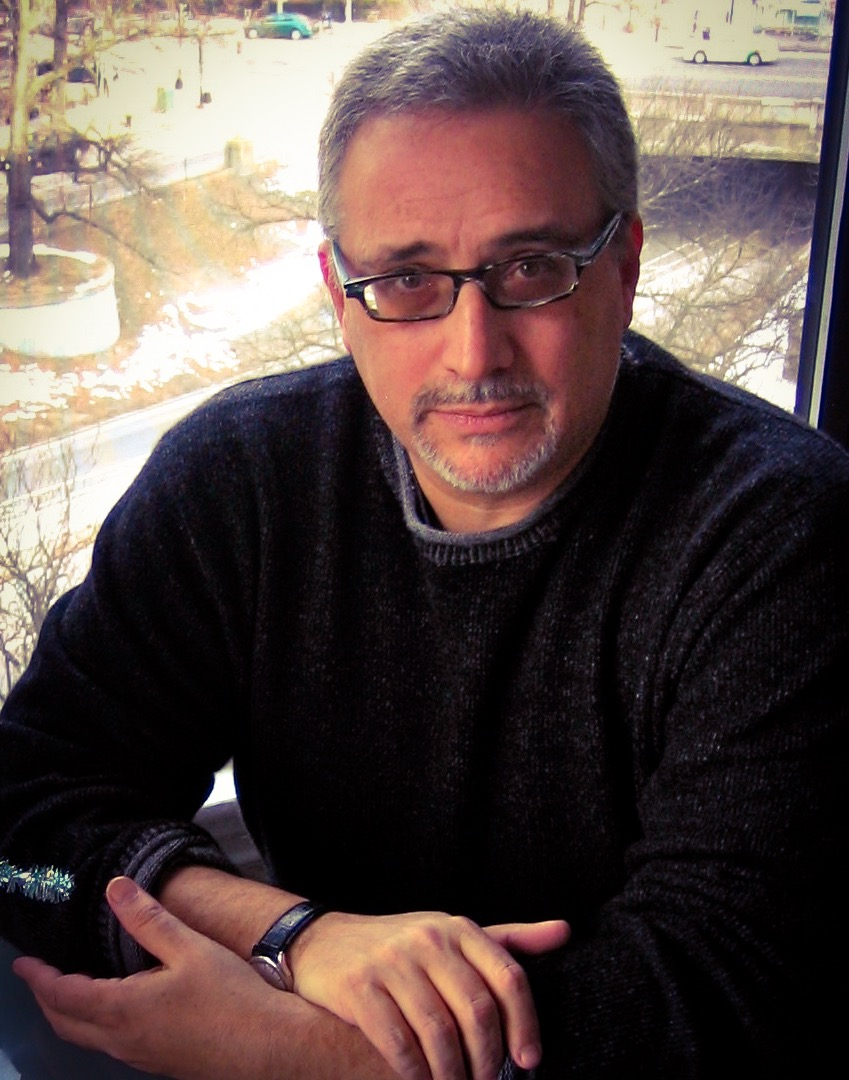 Photo of Robert Beaser, Boston MA 2010